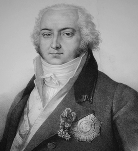 Engraving with the star of the Military Order of Saint Henry